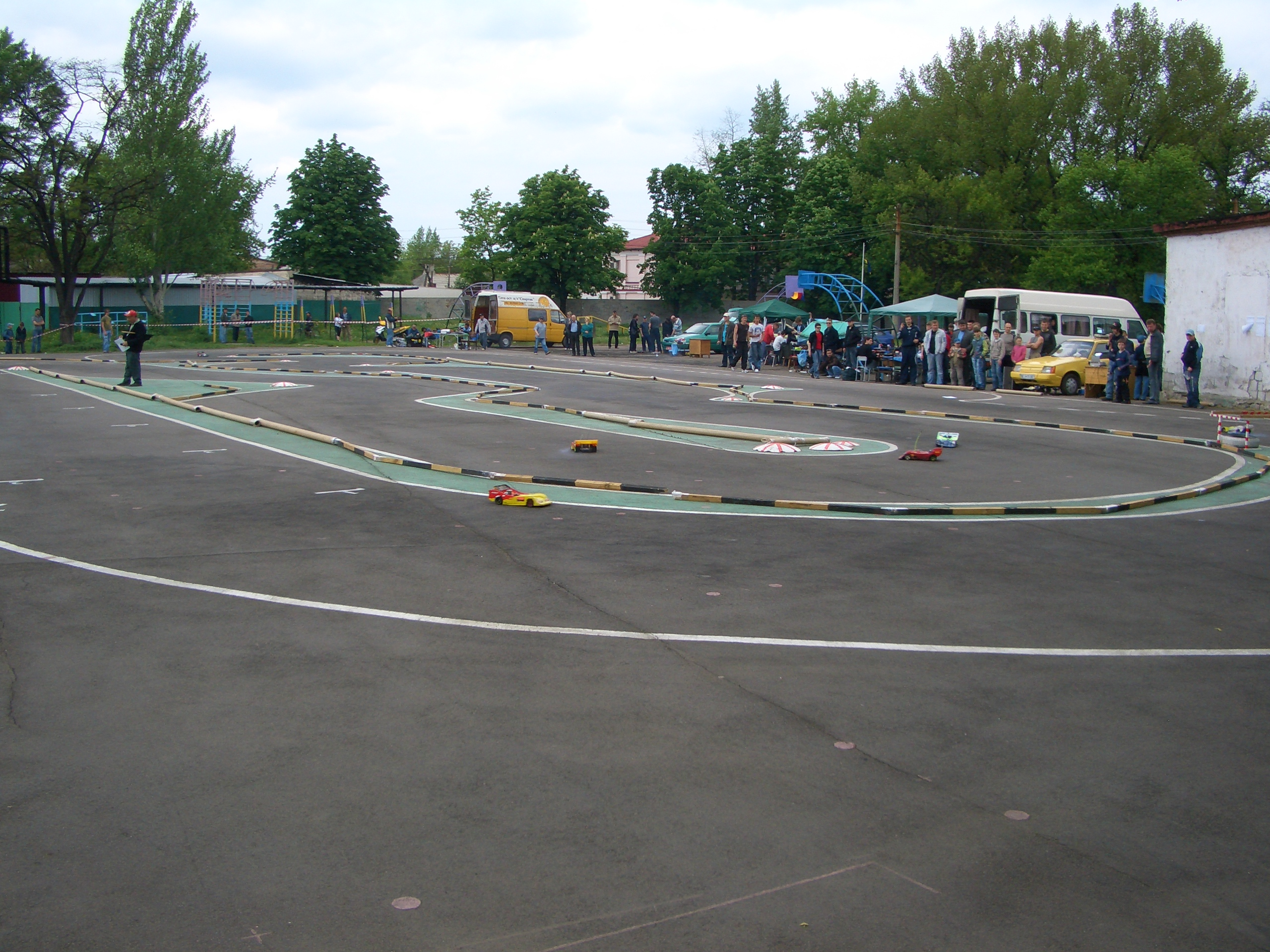 The first race of Ukrainian RC cars championship at Donetsk